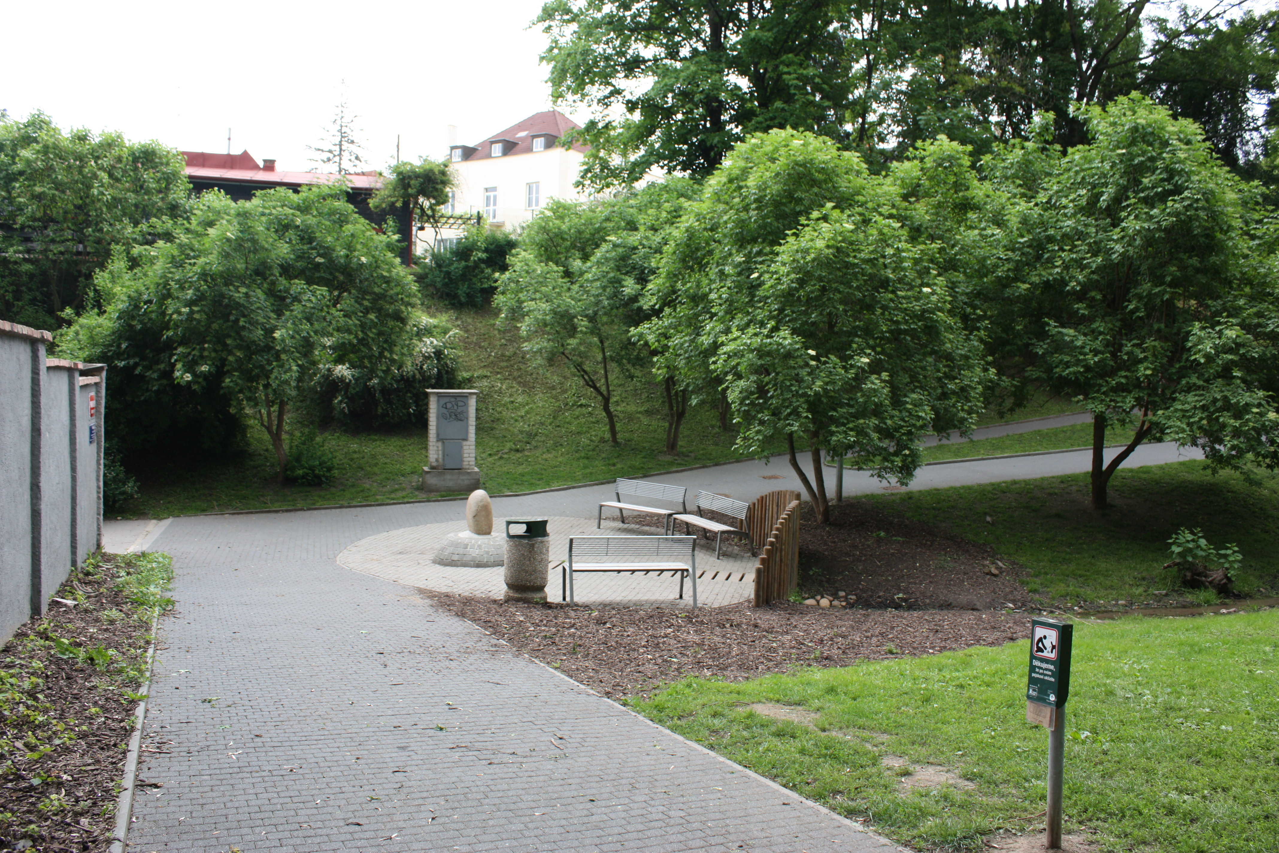 Willy Brandt Park, Prague 6 - Bubeneč